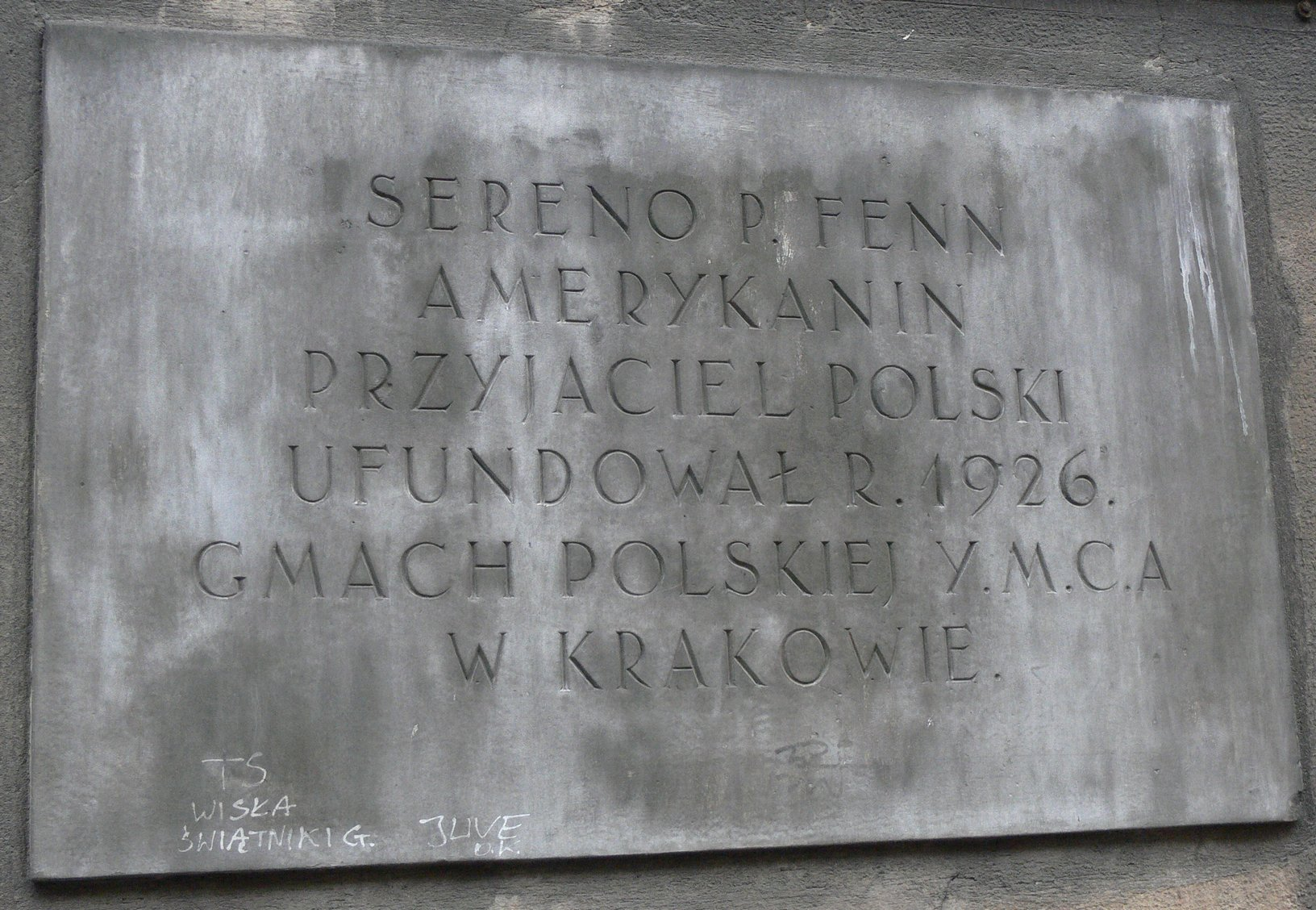 Plaque on the building at. Krowoderska 8, founder of the building YMCA - Sereno P. Fenn, Kraków, Poland